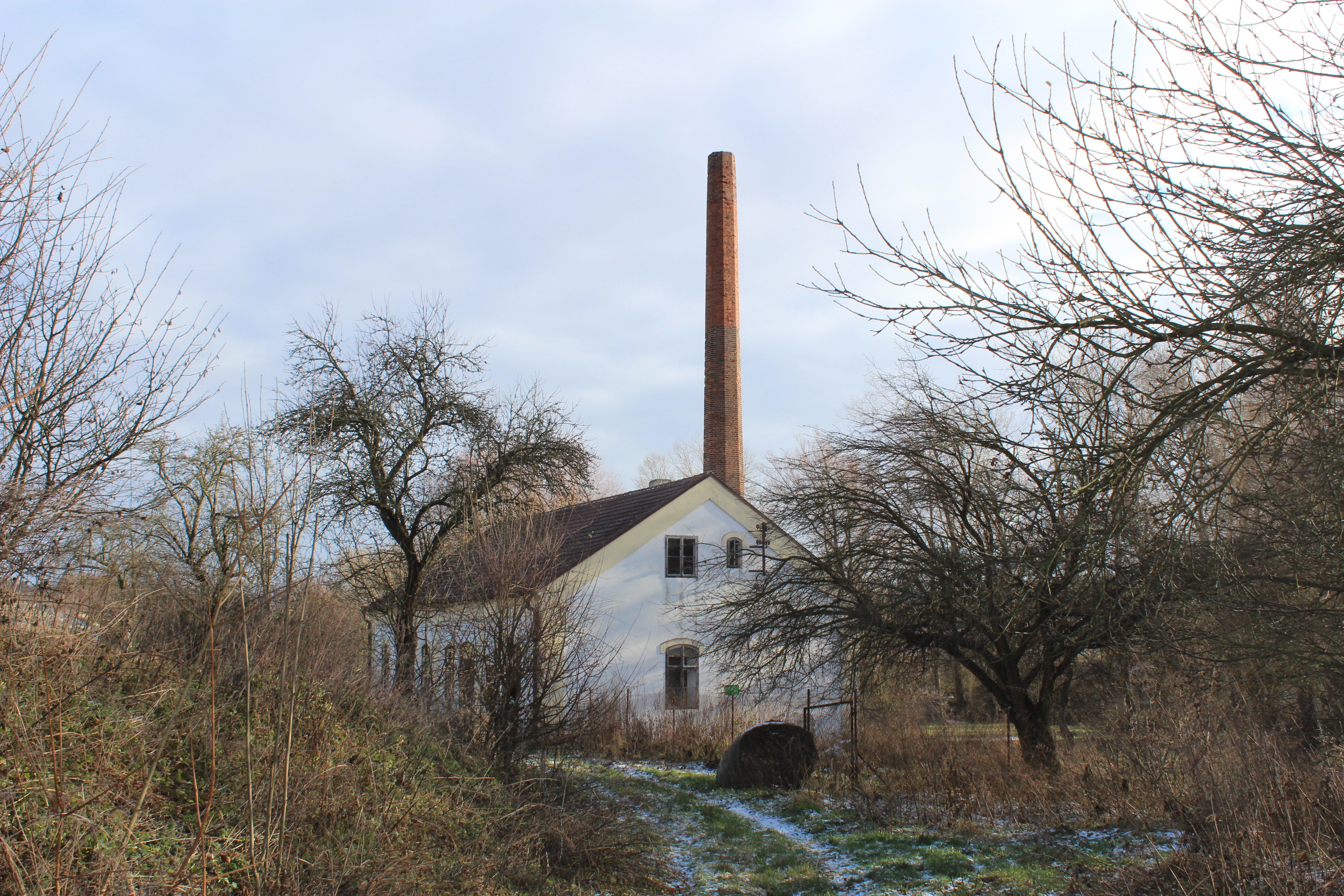 Waterworks Liteň (Dolní Vlence)